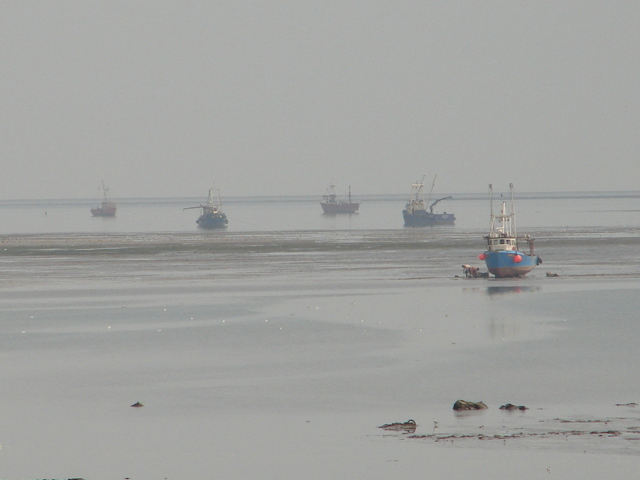 Cockling on The Wash Who needs boats when you can walk on the sands and hand pick the harvest! View from Tabs Head.